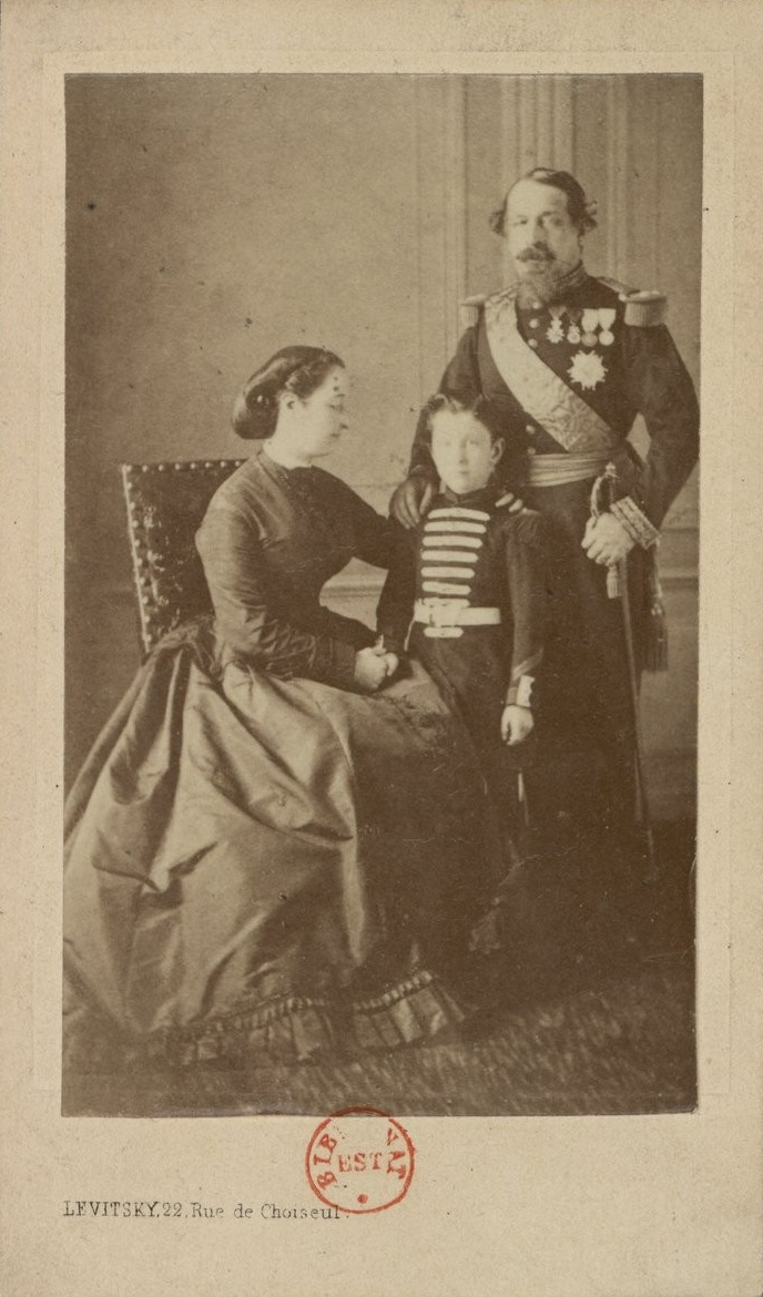 la famille impériale (Family of Napoleon III)